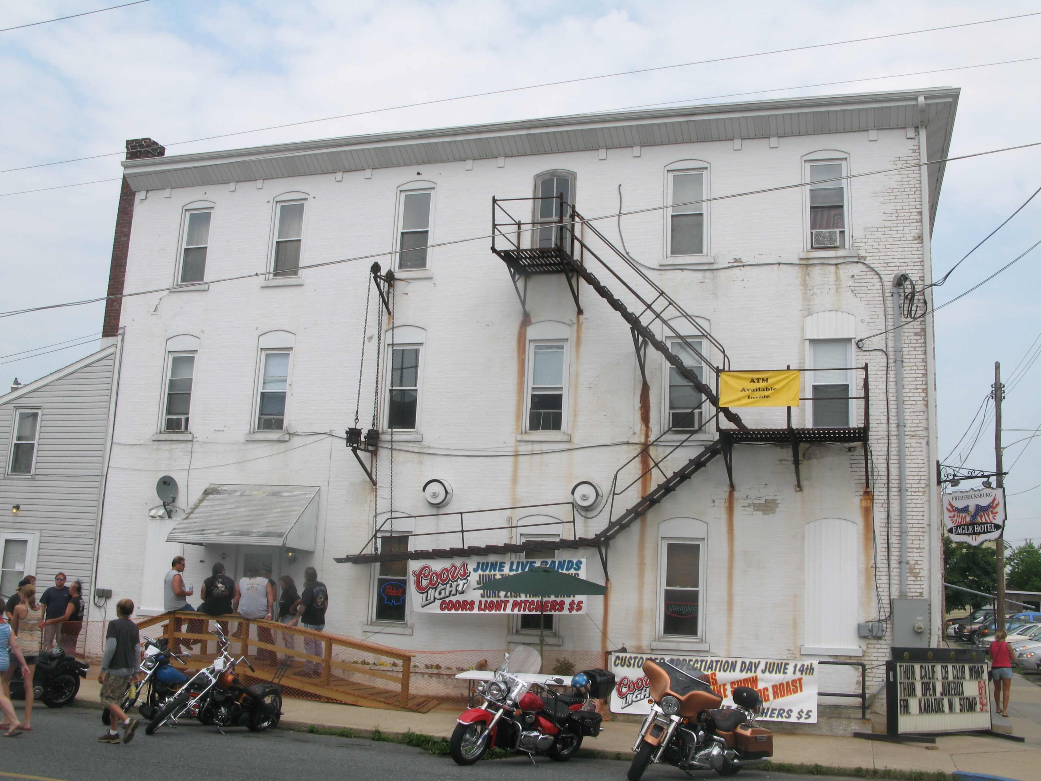 Fredericksburg Eagle Hotel, Customer Appreciation Day June 14th 2008 in Fredericksburg, Bethel Township, Lebanon County, Pennsylvania